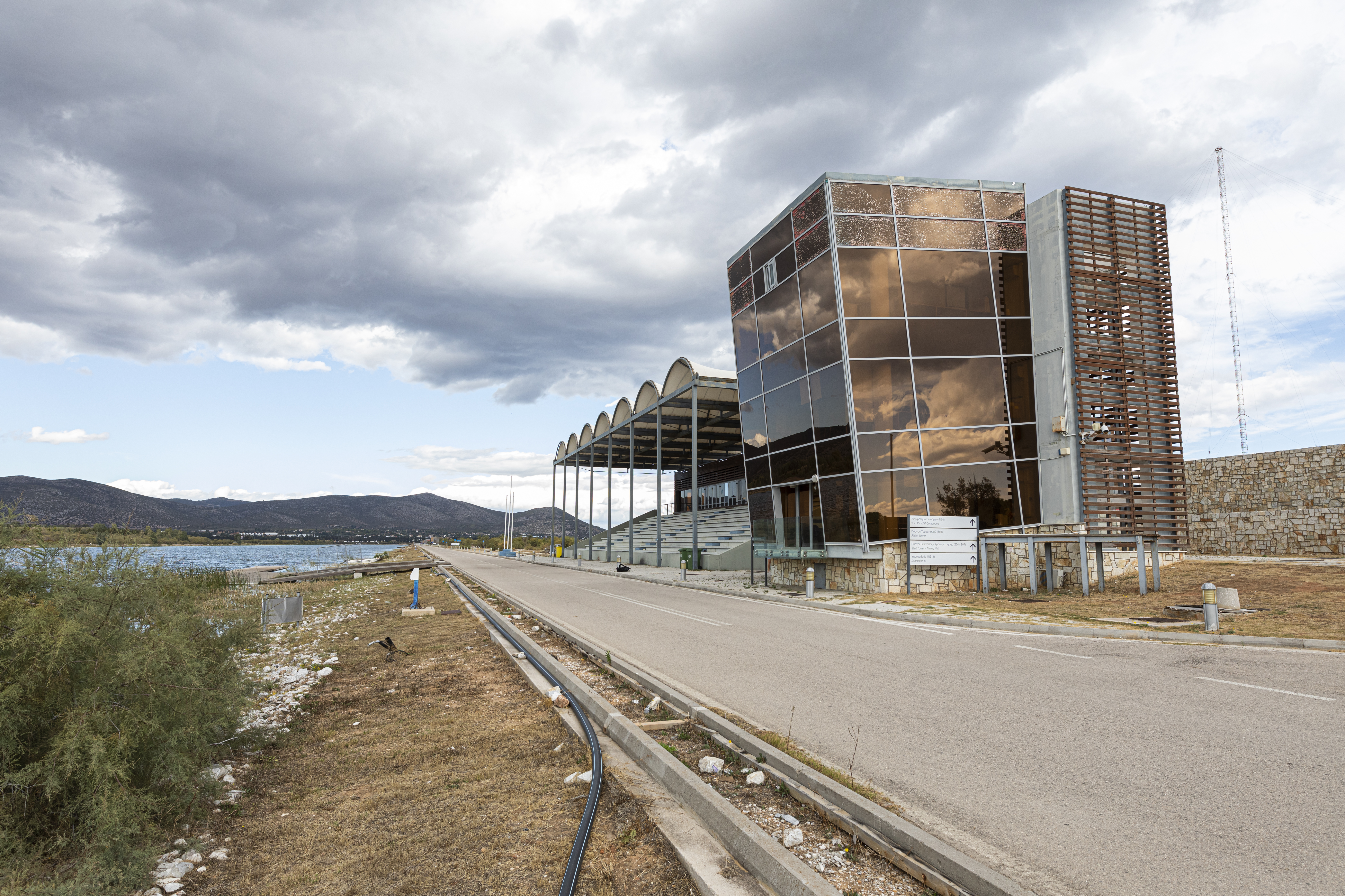 Schinias Olympic Rowing and Canoeing Centre, Marathon, Greece